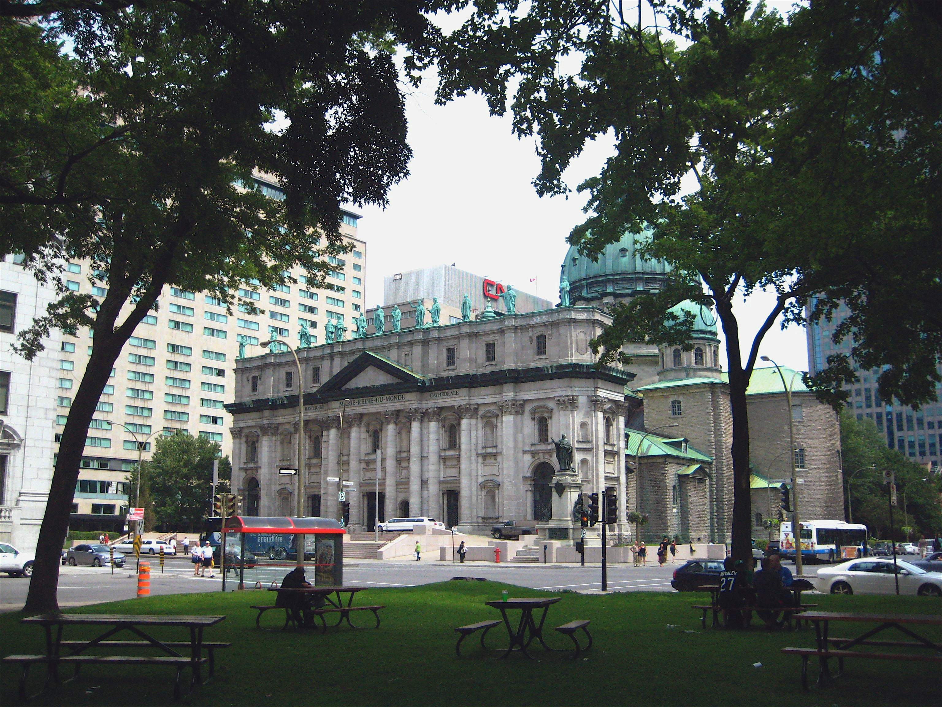 Mary, Queen of the World Cathedral as viewed from the Southeast corner of Dorchester Square